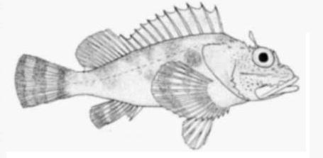 Scorpaena histrio